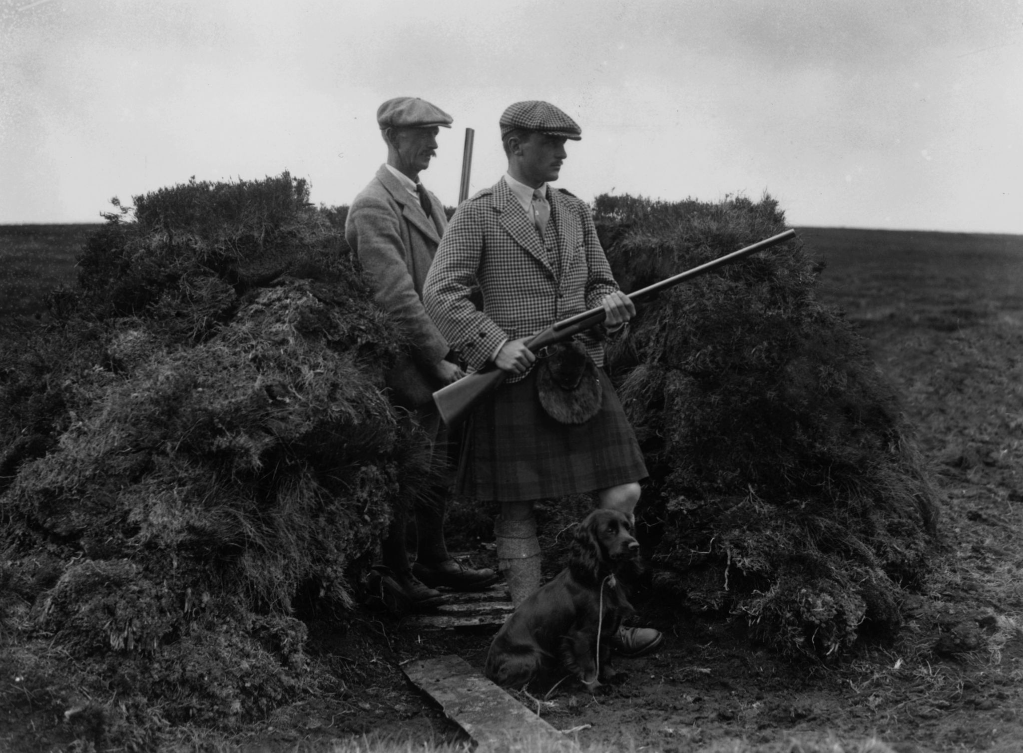 Major Sir Reginald Macdonald-Buchanan (right) with a gamekeeper in a hide during a grouse shoot on Mannock Moors (somewhere in the Scottish Highlands) hosted by James Buchanan, 1st Baron Woolavington. orginal description: "August 1922: M McDonald, a member of Lord Woolavington's House Party, with a gamekeeper in a hide during a grouse shoot on Mannock Moors. (Photo by W. G. Phillips/Topical Press Agency/Getty Images)" removed watermark center right